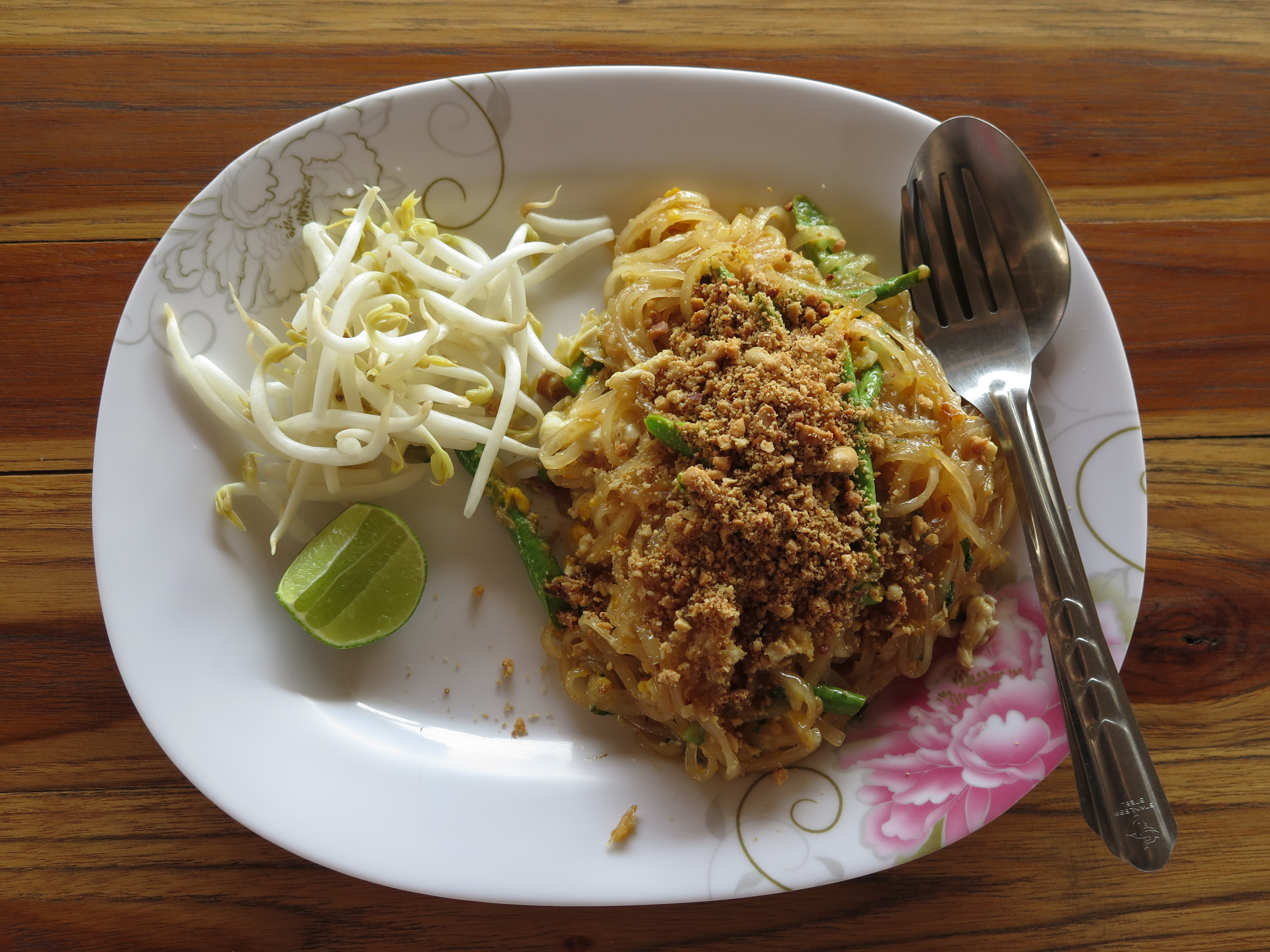 A plate of pad thai. Pad thai is on the right. In the upper left is a pile of sprouts, and in the lower left is half a lime. It is served with a spoon on a white plate. Photographed in Thailand.